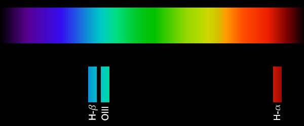 UHC filter bandpass